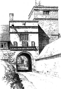 Wormleighton Manor entrance, Warwickshire, England